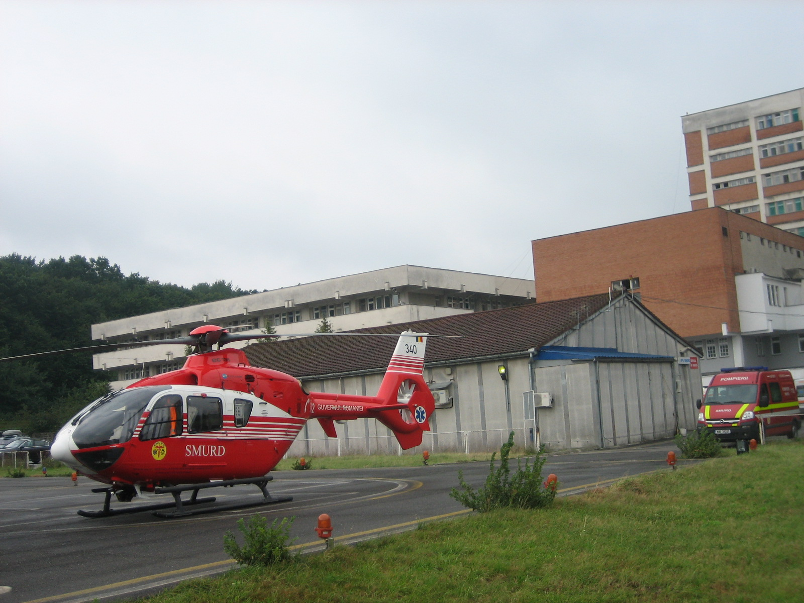 Helicopter of SMURD Târgu Mureş - Marosvásárhely.